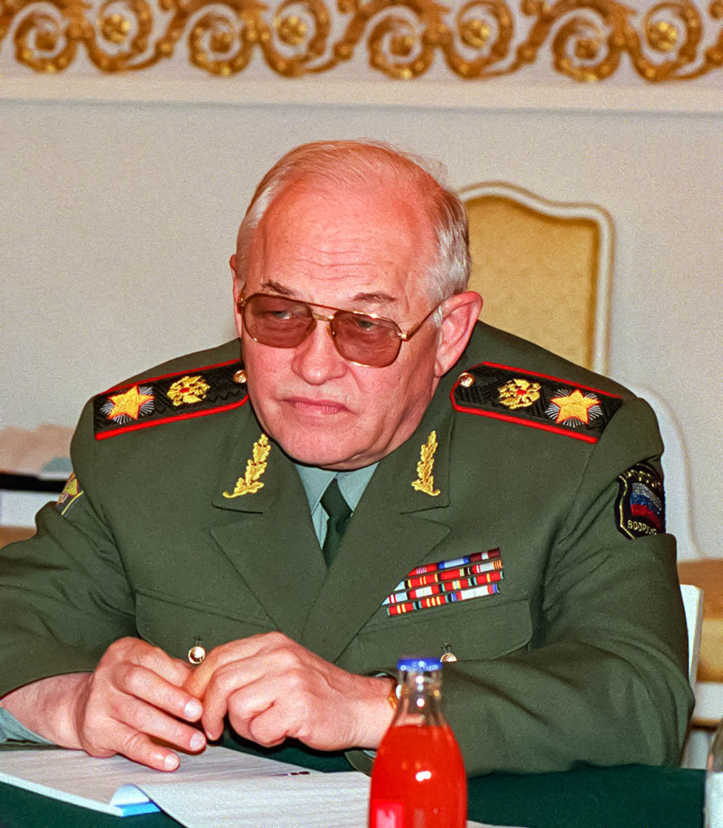 Igor Dmitriyevich Sergeyev (Игорь Дмитриевич Сергеев), Defense Minister of the Russian Federation